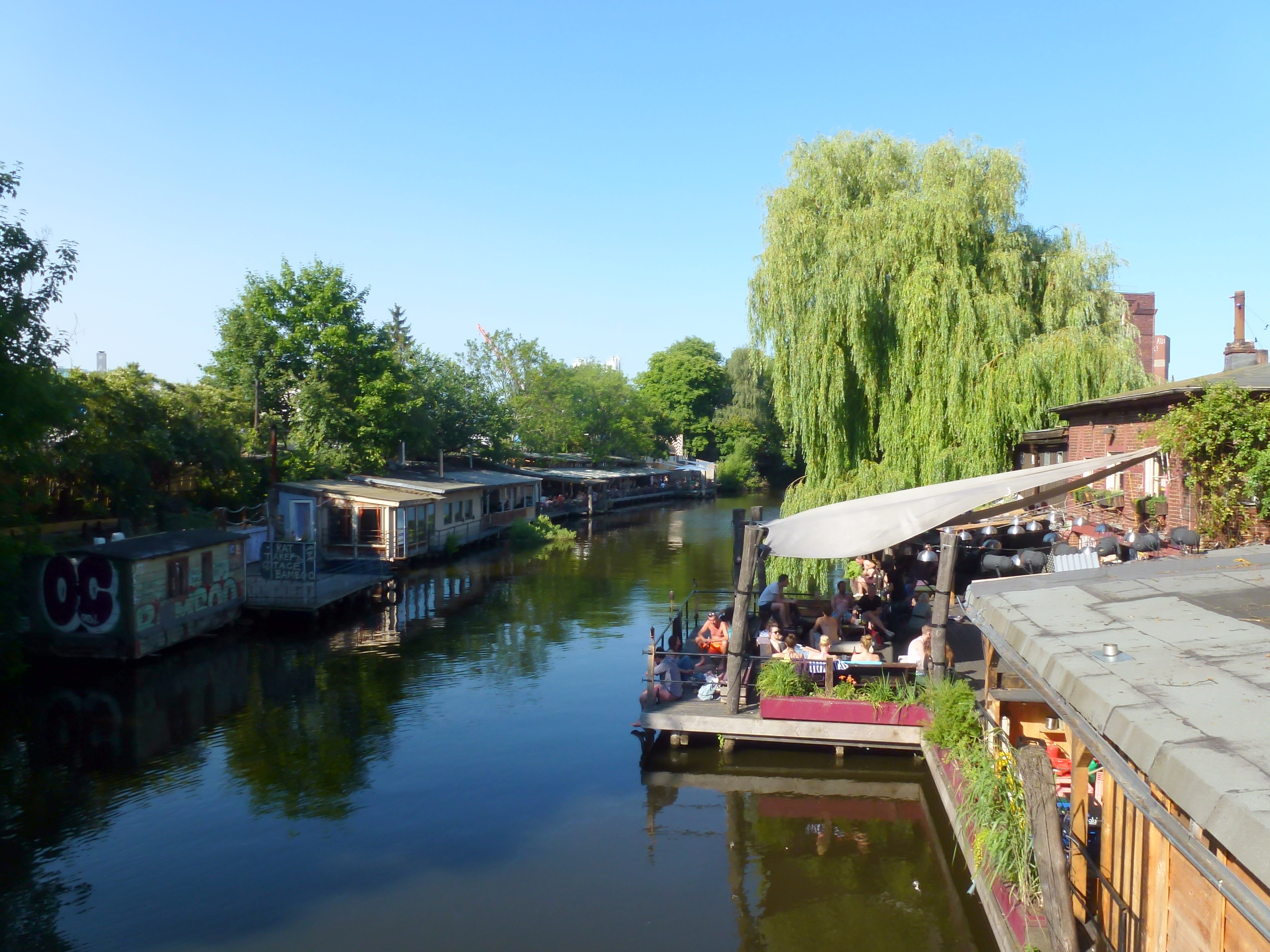 Berlin-Alt-Treptow Flutgraben